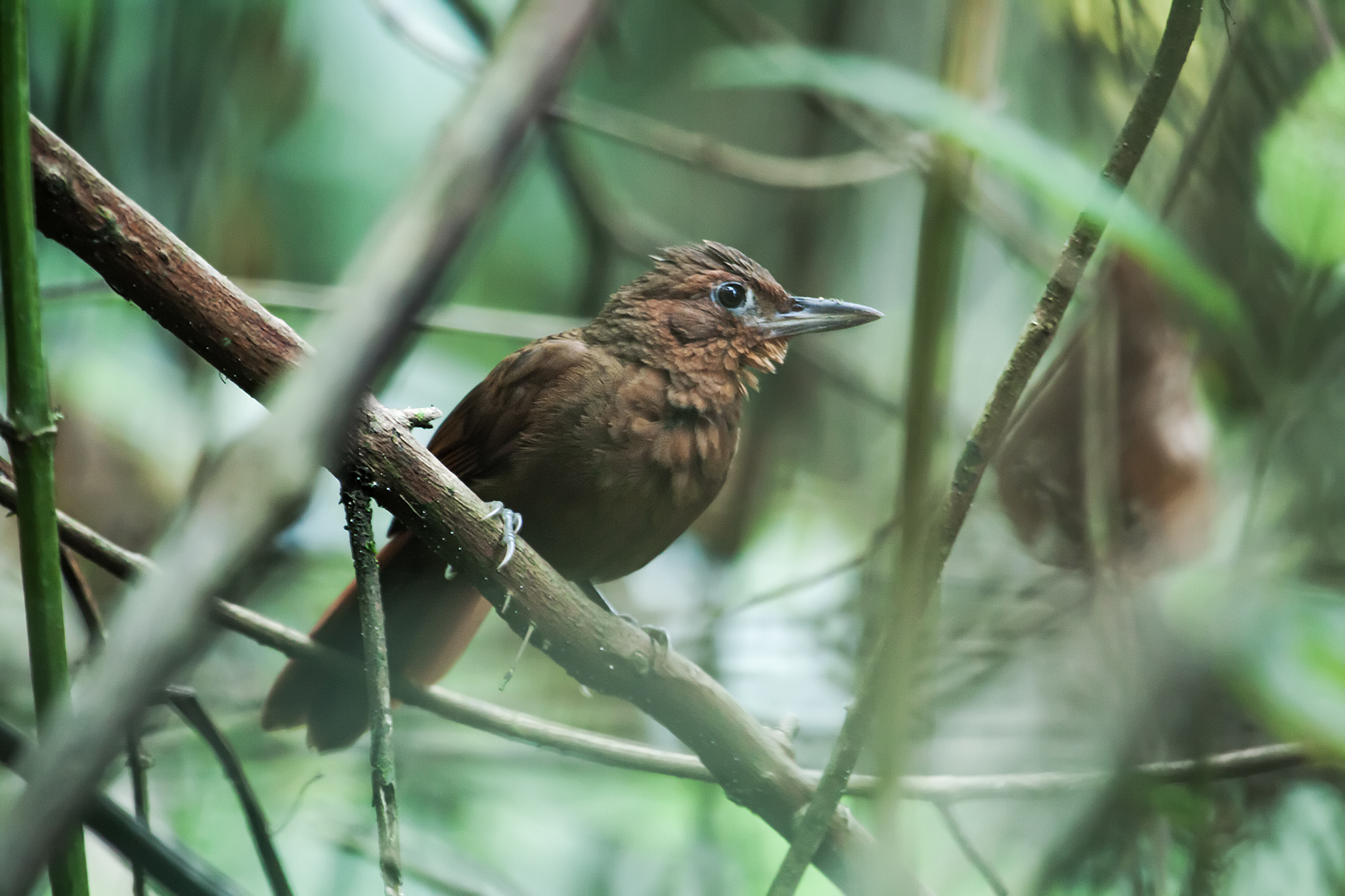 Santa Marta Foliage-gleaner from the Sierra Nevada de Santa Marta, Magdalena, Colombia.